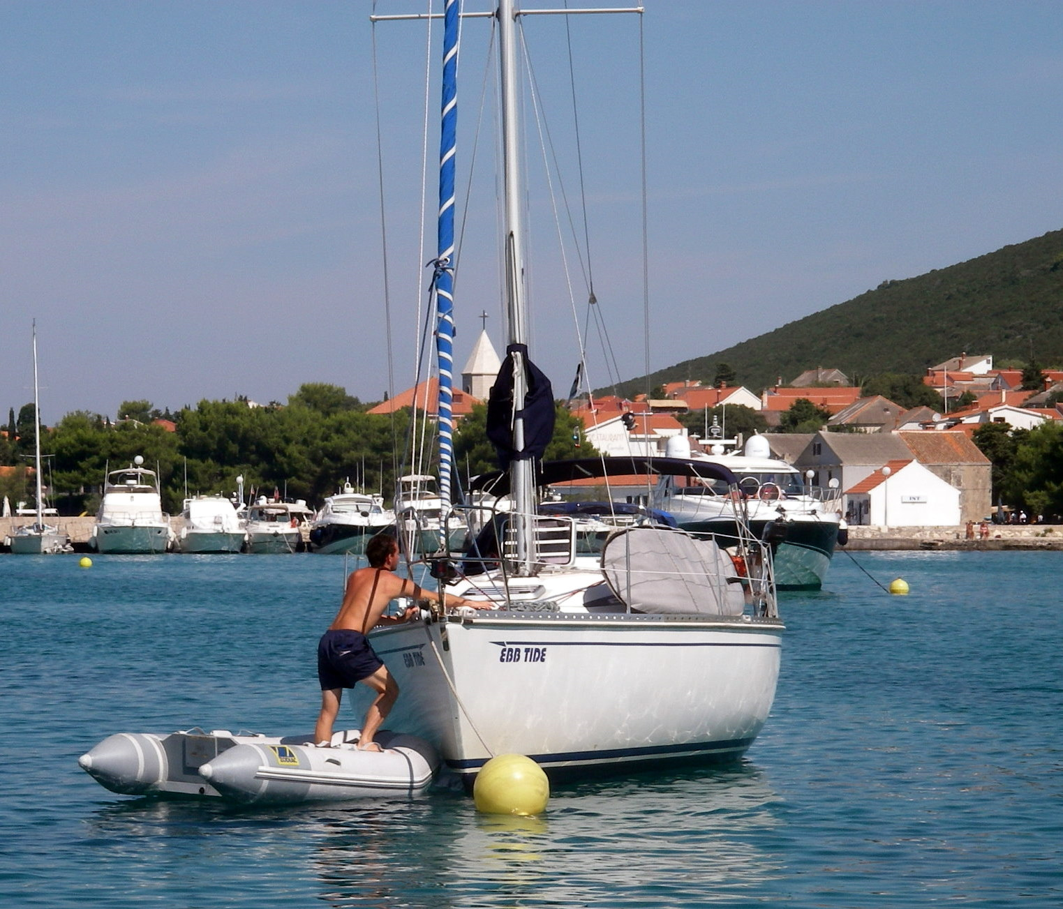 Sailboat in harbor Ist.